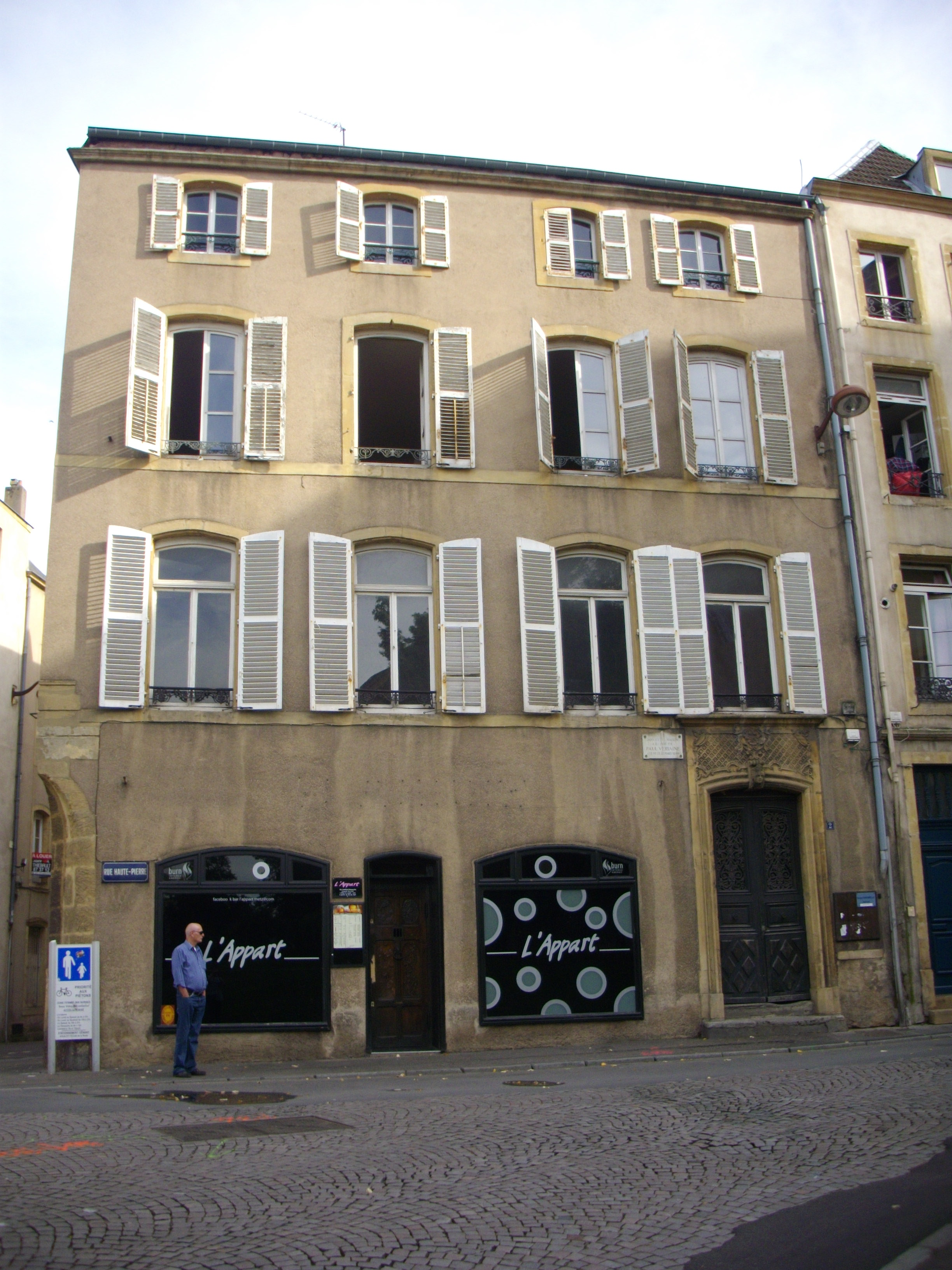 Native house of Paul Verlaine (1844-1896) in Metz (Moselle, France)